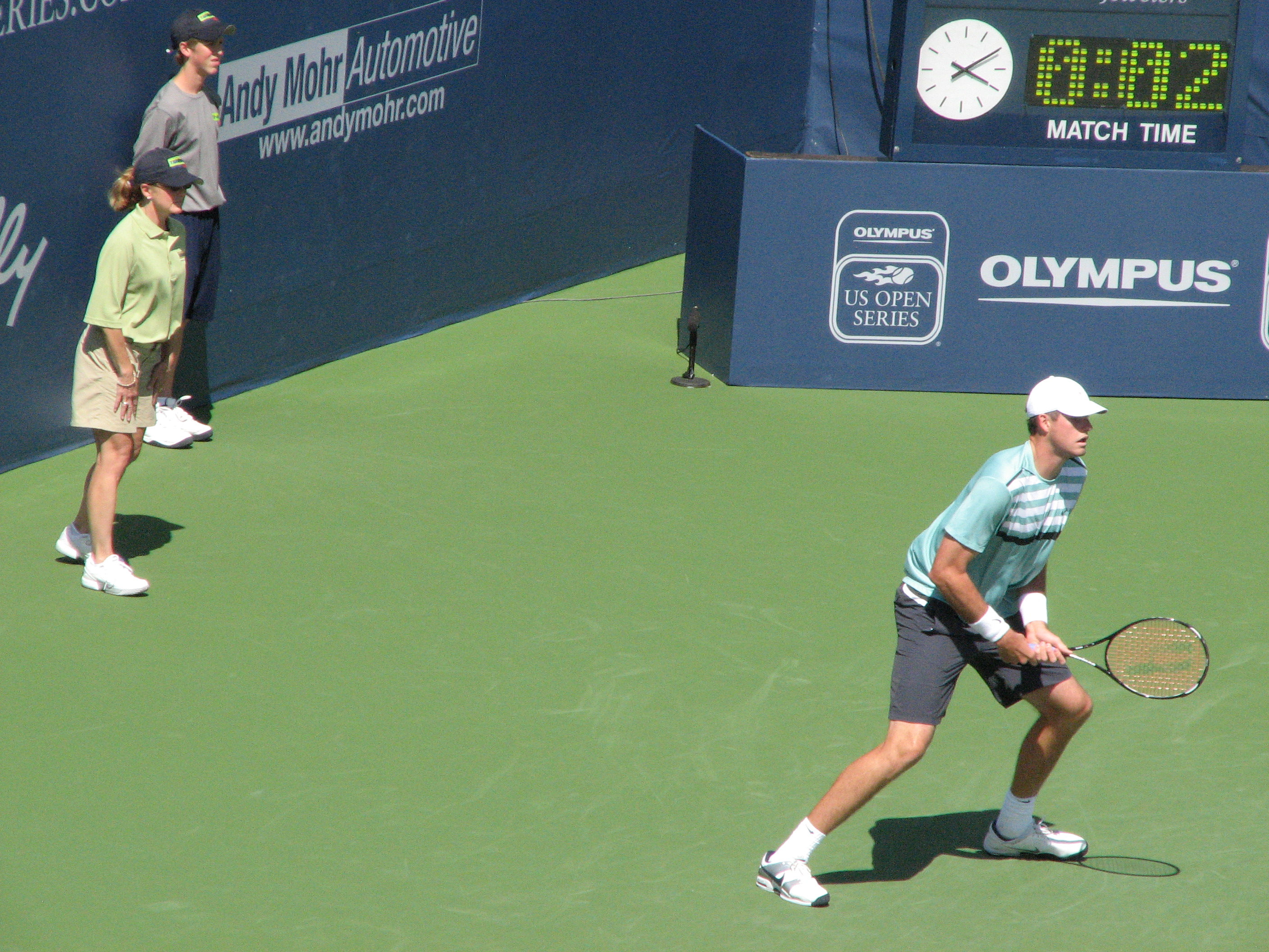 John Isner against Robby Ginepri during the 2009 Indianapolis Tennis Championships semifinals